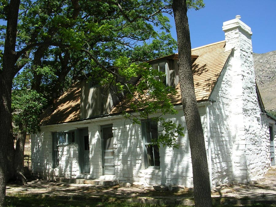 Guadalupe Frijole Ranch House in Guadalupe Mountains National Park, Texas. On the National Register of Historic Places in Guadalupe Mountains National Park.